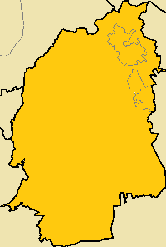 Latsia Municipality with quarters.